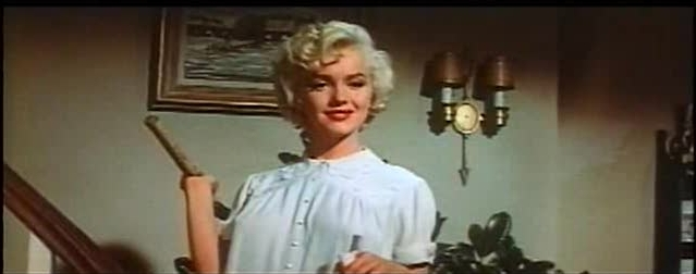 Marilyn Monroe holding a hammer in the theatrical trailer of the 1955 film The Seven Year Itch directed by Billy Wilder.